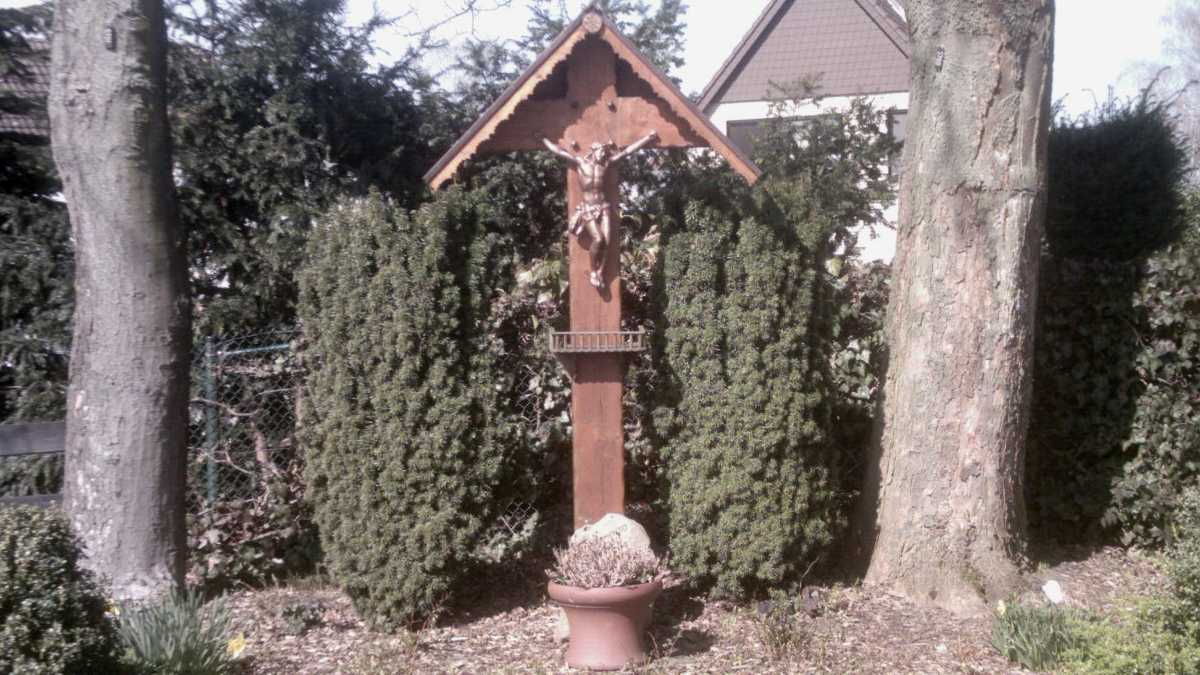 Wooden wayside cross in Ummer, Viersen, Germany.